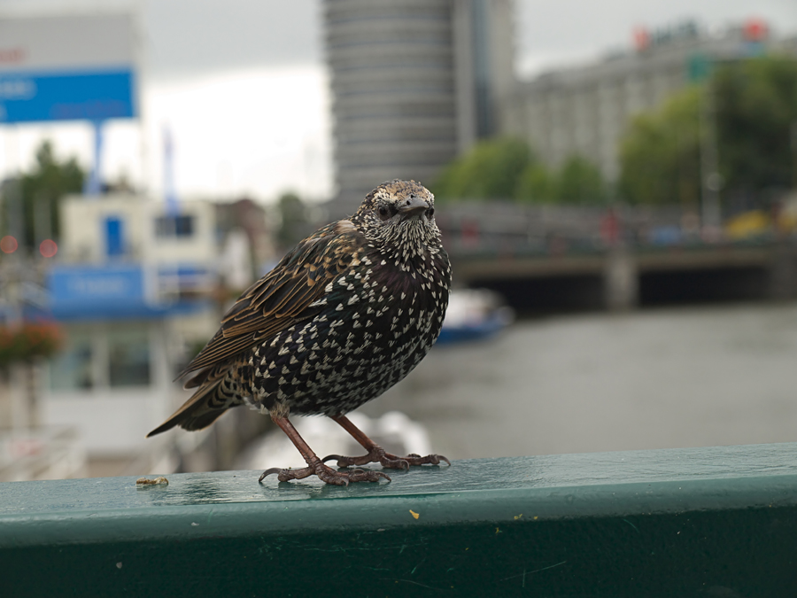 European Starling, Common Starling or locally just Starling in Amsterdam, Holland.